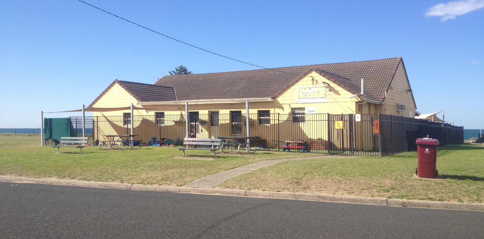 Photograph of the Mission Australia Early Learning Services building in Stockton, NSW. The building was formally the North Stockton Surf Club.